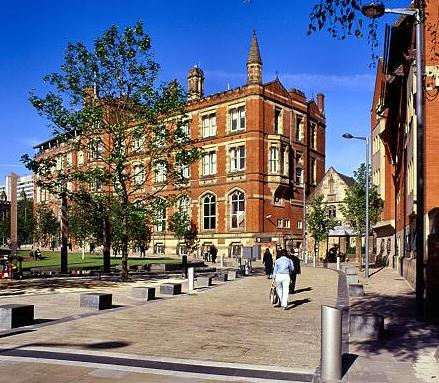 The Manchester Grammar School Extension built in the 1870s (The Old Site)